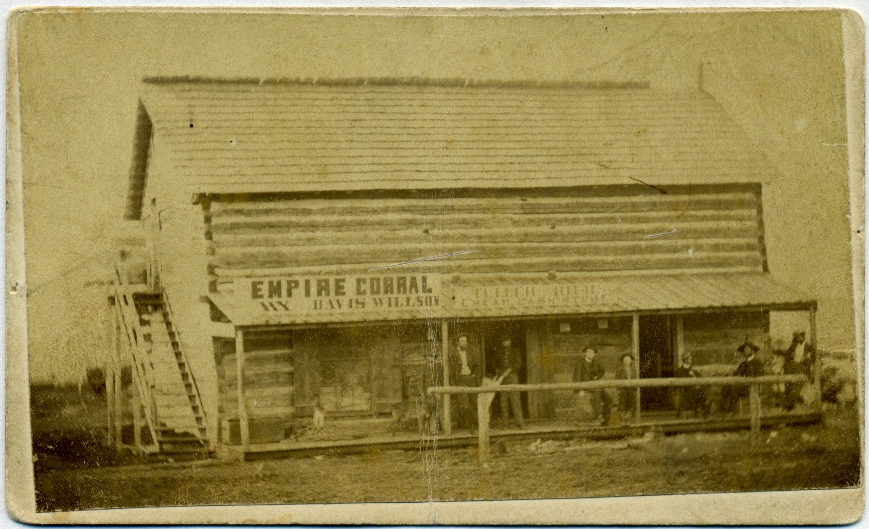 Original Tuller and Rich store (co-owned by Lester S. Willson) alongside Empire Corral (Davis Willson) in Bozeman, Montana, 1866. Purported to be the oldest known photograph of Bozeman, Montana Scott, Kim Allen (Spring 1999). "Montana Episodes-The Willson Brothers Come To Montana". Montana, The Magazine of Western History 49: 58-70.